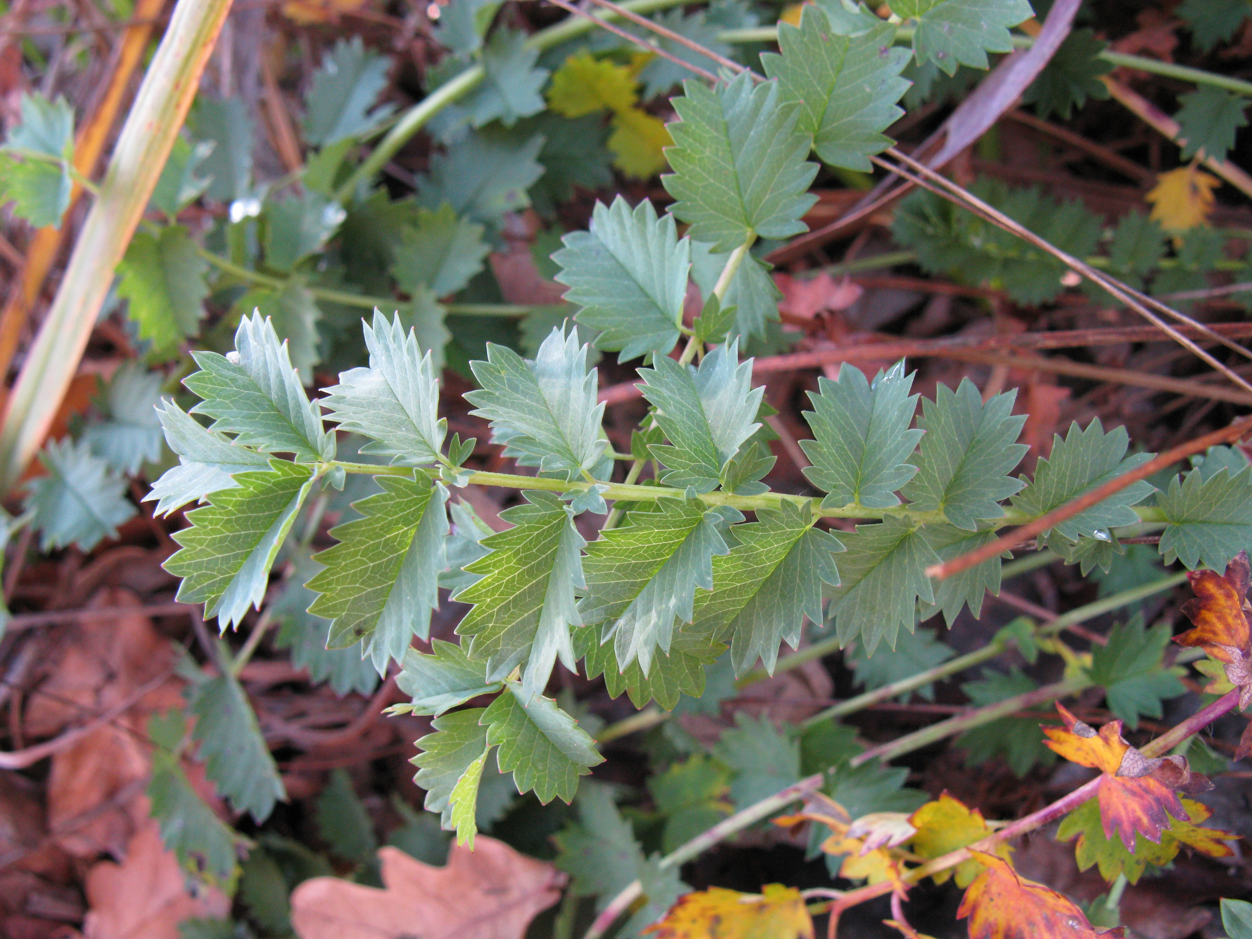 Introduced, warm-season to yearlong-green, perennial herb; aerial stems annual, to 1 m tall. Leaves are pinnate, 8–20 cm long and form a rosette; leaflets number 9–21, and are ovate, toothed and hairless; stipules are leafy, stem-clasping and toothed. Flowerheads are globose to ovoid spikes, 10–15 mm long. Flowers are unisexual; sepals 4, petals 0. Female flowers are borne above the male flowers. Male flowers have 4 stamens, sometimes with 1 or 2 stigmas. Female flowers have 2 carpels and sometimes 1 or 2 stamens. Fruiting hypanthium are 3–4 mm long, 4-ribbed and strongly pitted between the ribs. A native of Europe, it is common on the Tablelands, especially along roadsides. A minor environmental weed. Easily mistaken for native Acaena species when not in flower; fruits of these species are spiny.